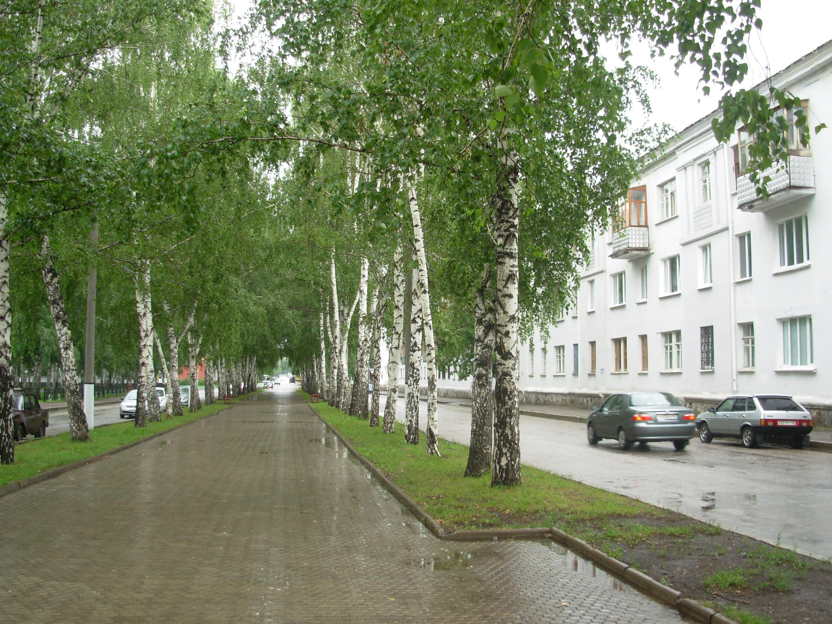 street